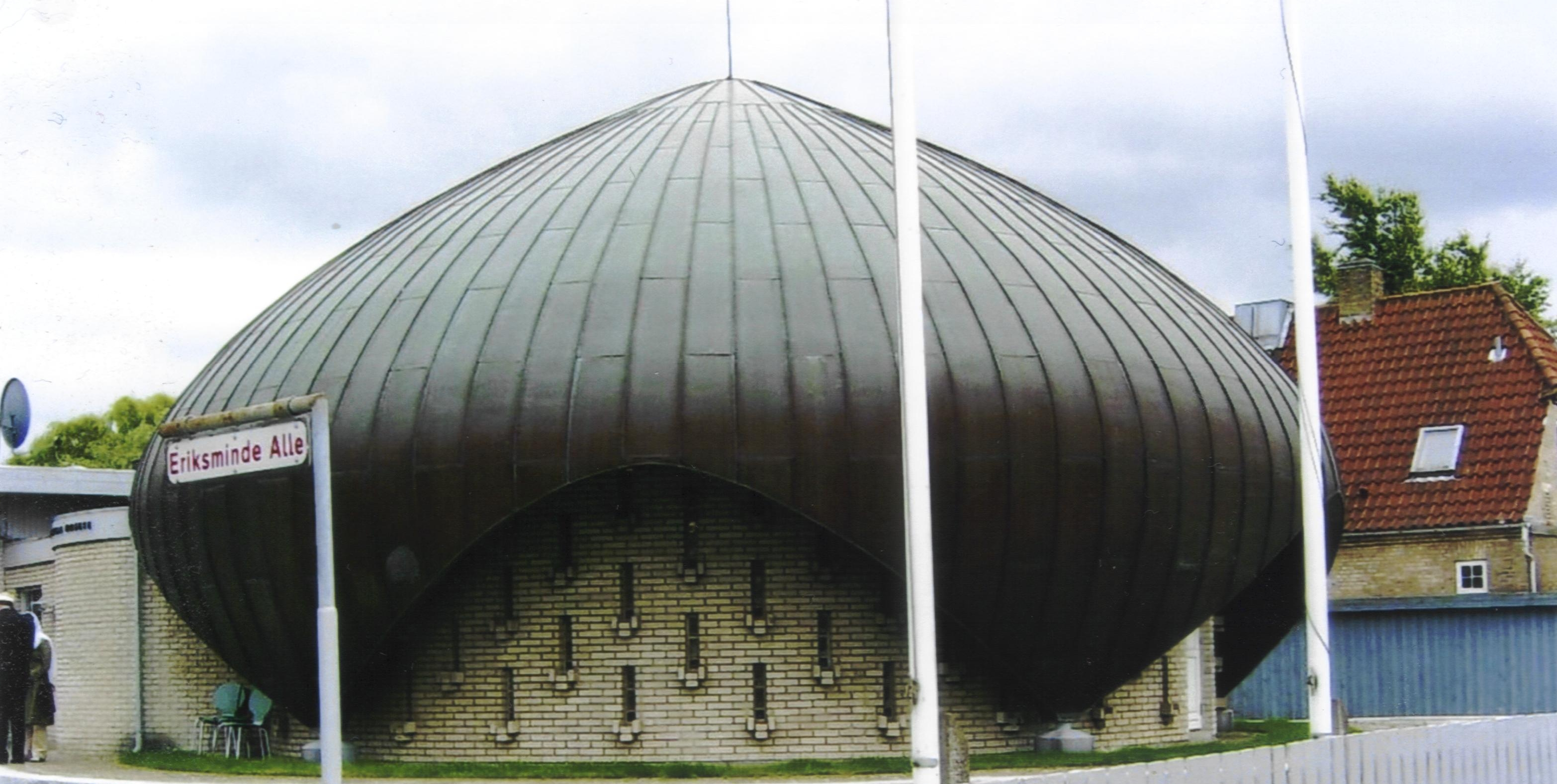 Nusrat-Jehan-Moschee is a mosque built 1967 by AMJ in Copenhagen